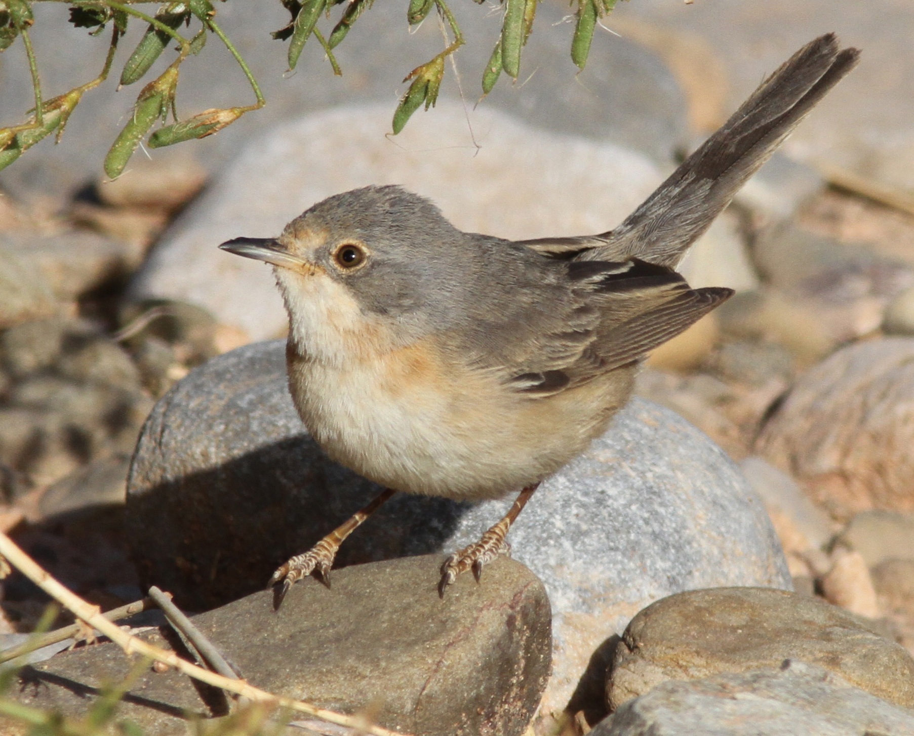 Female Subalpine warbler (Sylvia cantillans), near Ouarzazate, Morocco